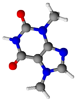 Theobromine